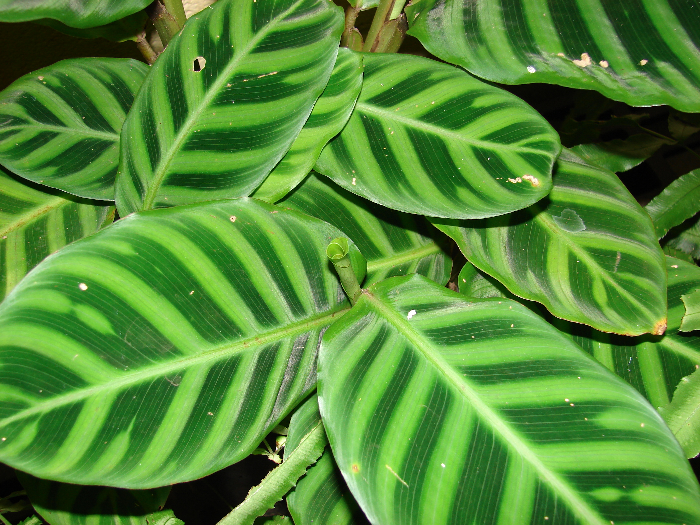 Calathea zebrina (leaves). Location: Maui, Kula Ace Hardware and Nursery